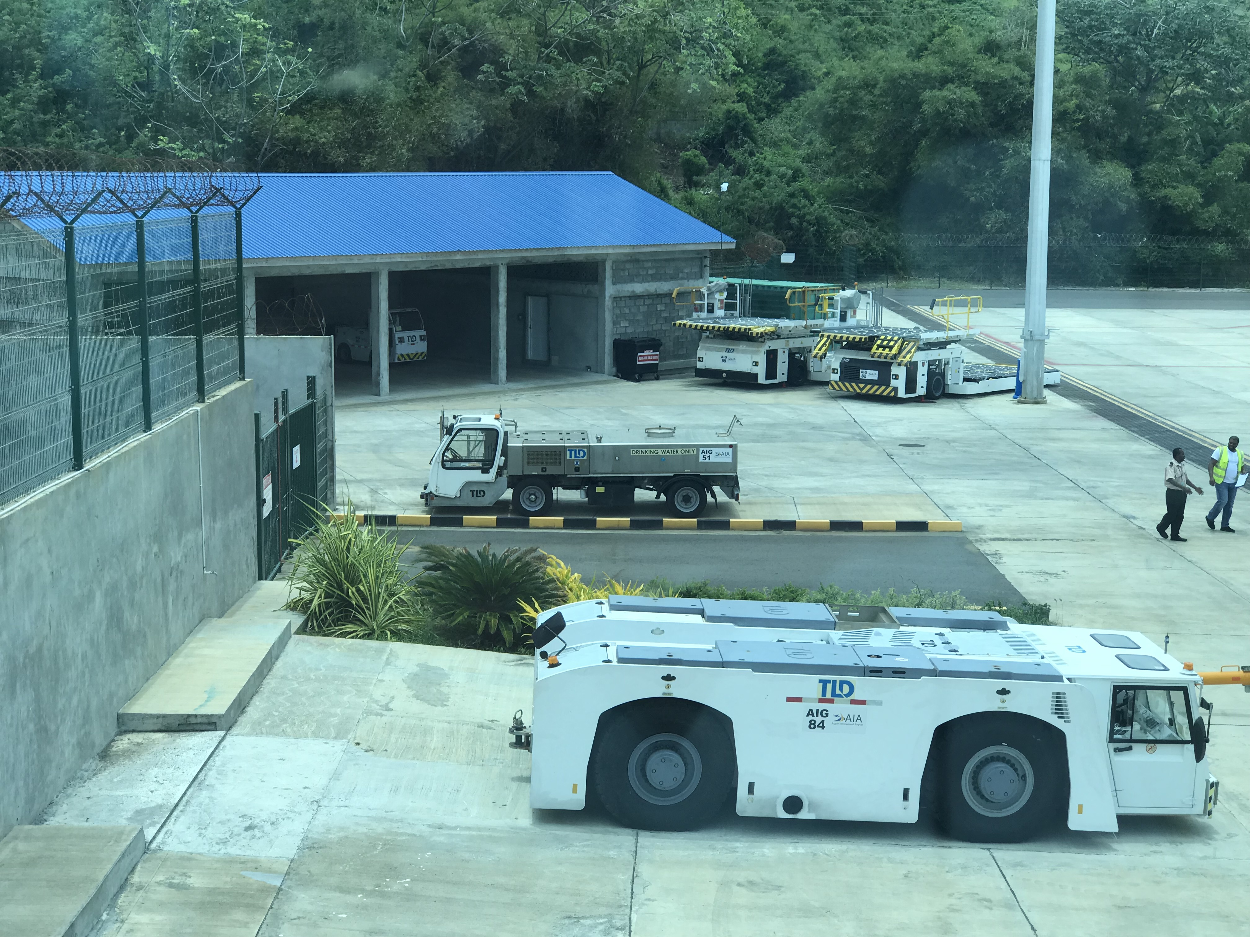 AIA ground handling equipment